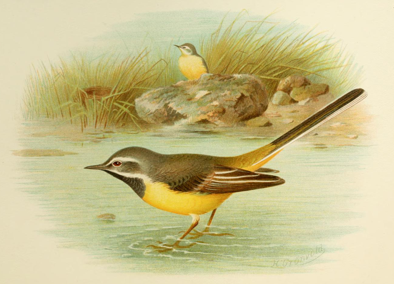 An illustration of a male and a female Grey Wagtail by Henrik Grönvold